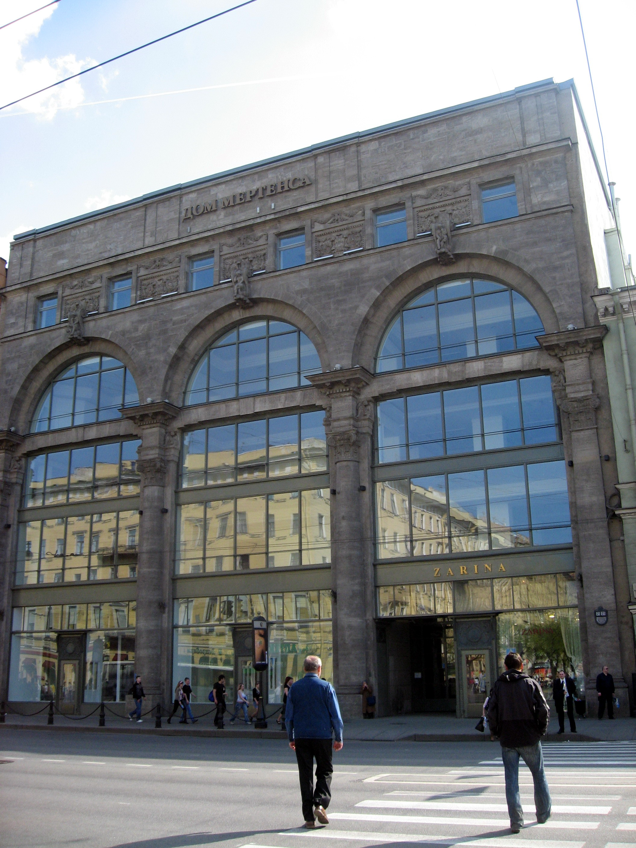 Mertens Trade House in Saint Petersburg (Nevsky Prospekt, 21). Constructed by architect M. S. Lyalevich in 1911-12